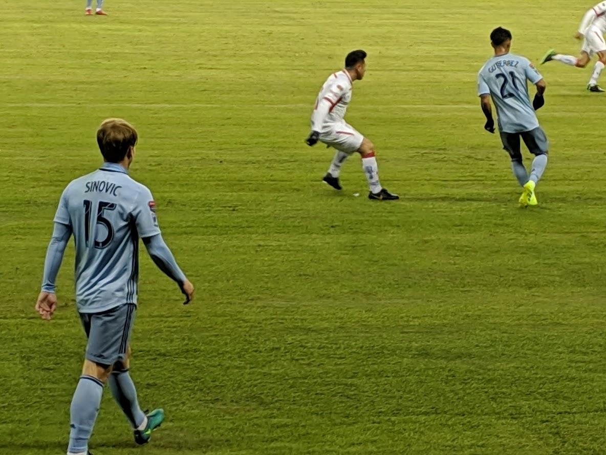 Seth Sinovic (foreground) against Toluca. Feb. 21st 2019.